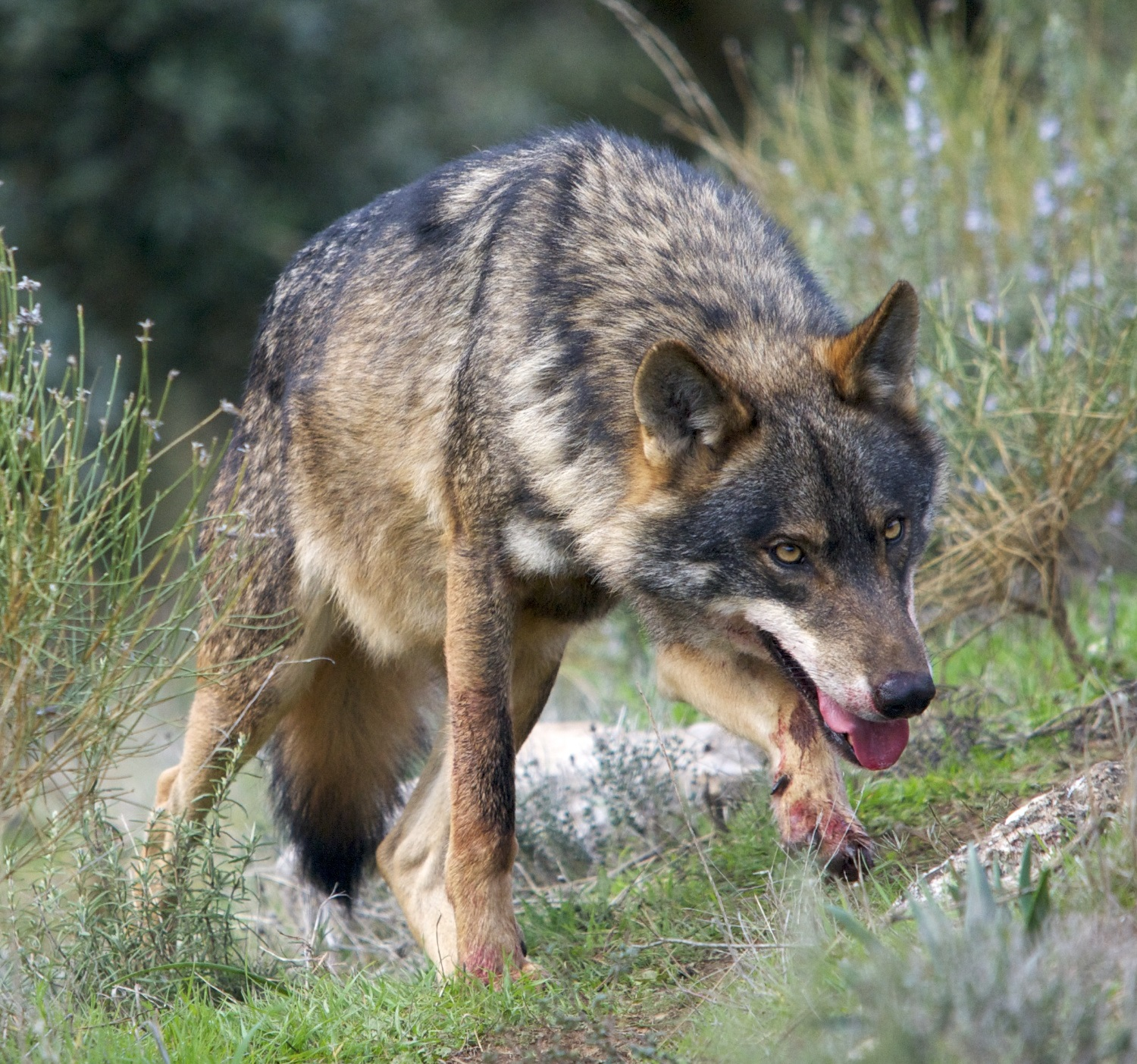 Iberian Wolf (Canis lupus signatus) alpha male in perfect "big bad wolf" pose - head down, eyes fixed, mouth open, forelegs stained with blood. Granada, Spain